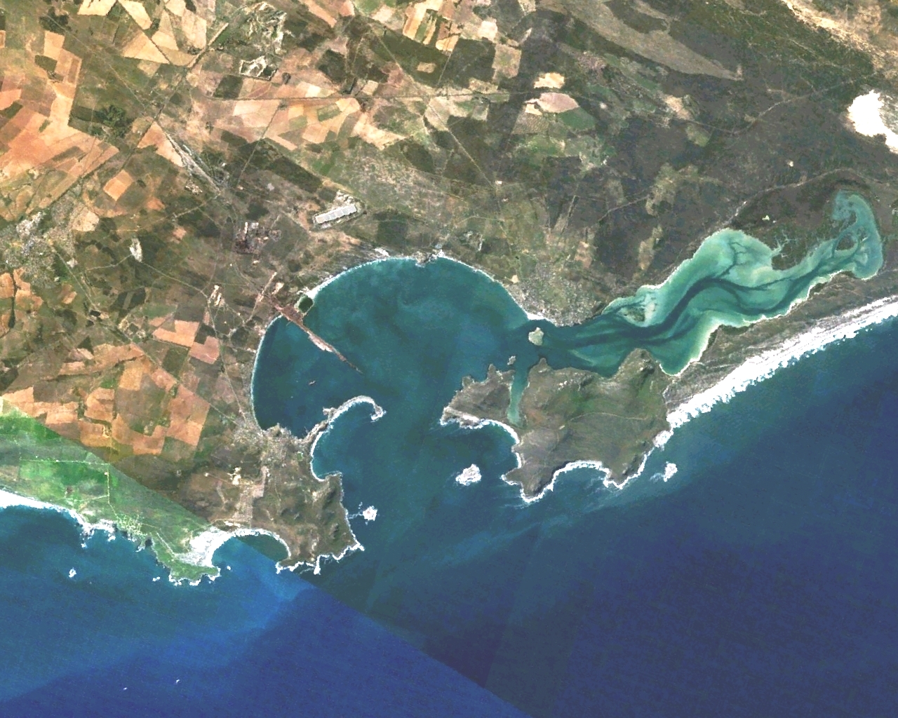 Saldanha Bay, Western Cape, South Africa. Coordinates: 33º 02' 11" S 17º 59' 04" E. Facing east (north is to the left.)